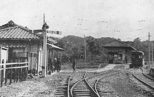 Ishikawa Awazu Station in Taisho and Pre-war Showa eras